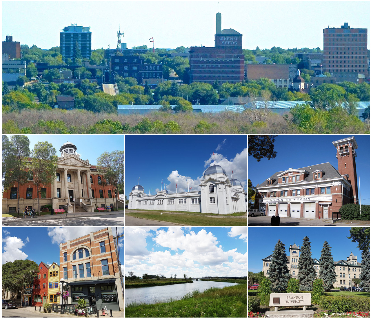 A montage of Brandong